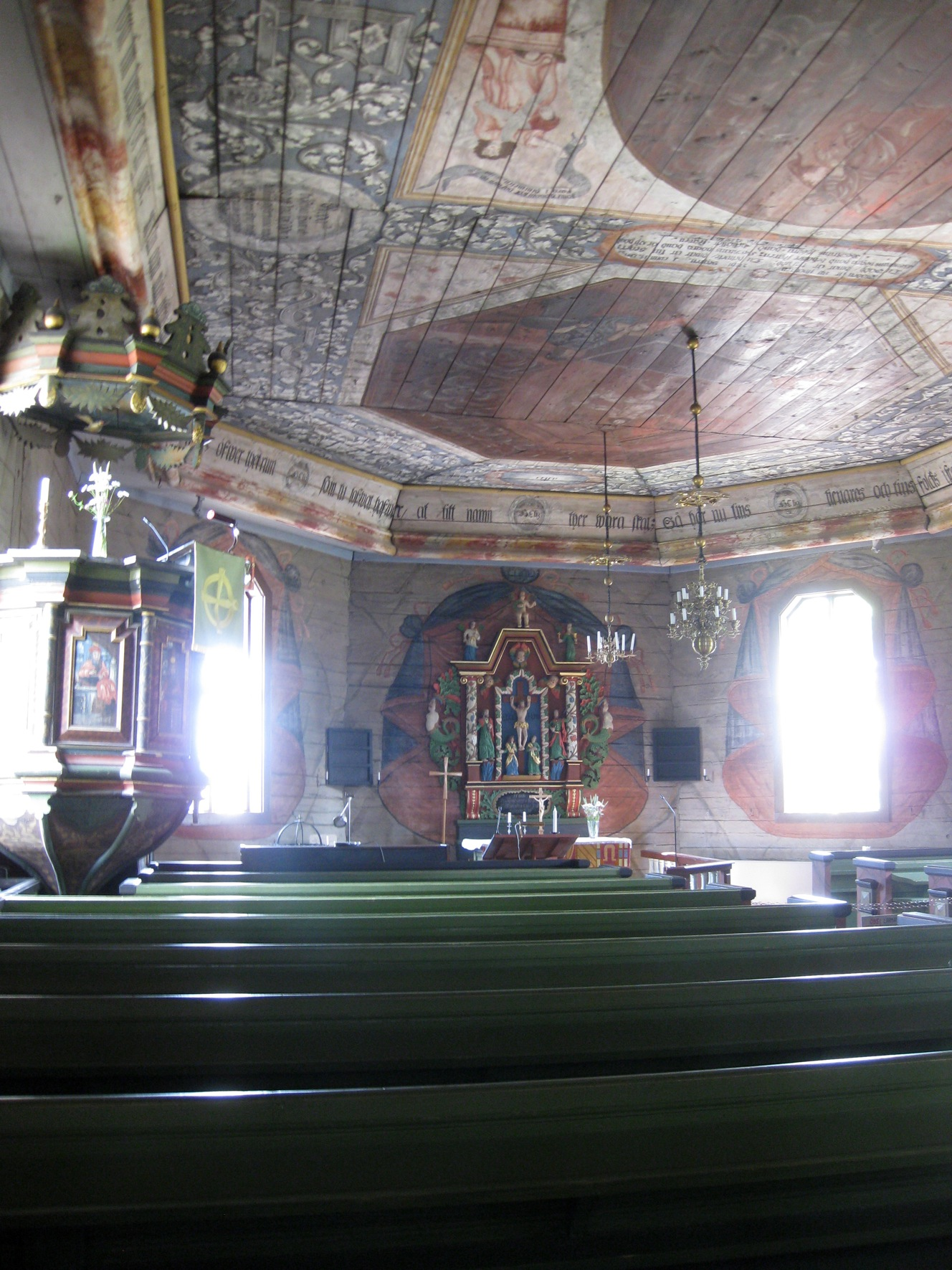 Interior of Älgarås wooden church in the province of Västergötland, Sweden. The church is medieval. The paintings in the ceiling depicts scenes from the Bible, on the pulpit are paintings of the Four Evangelists. They were painted by local master Anders Broddesson in the 1750s.